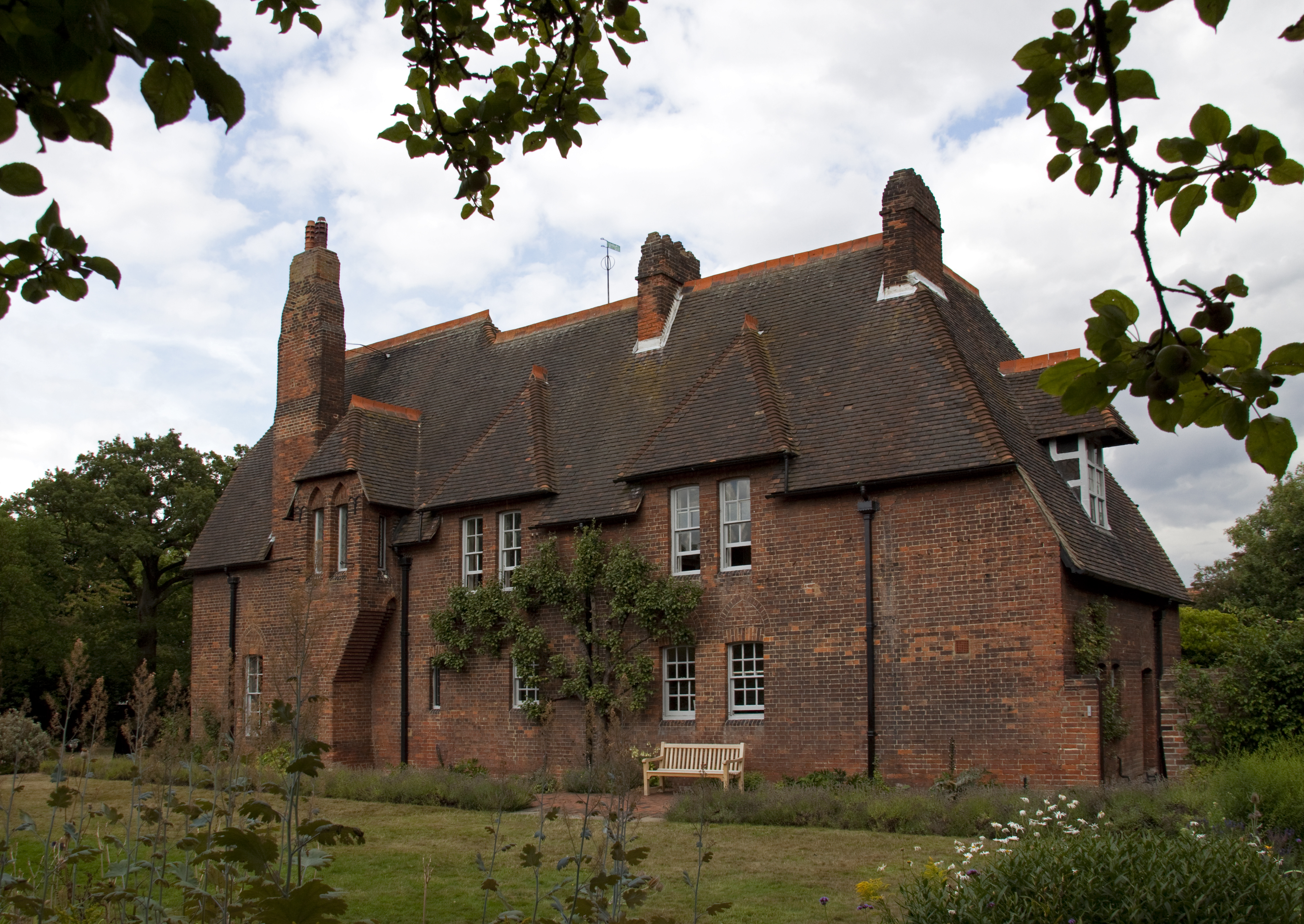 The home of William Morris